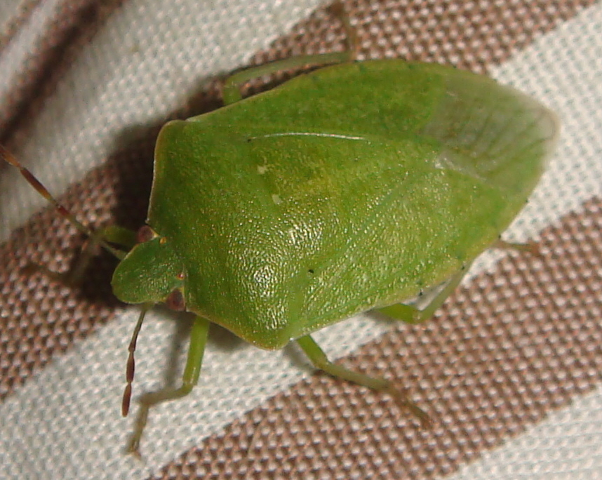 A stink bug , from Greece.